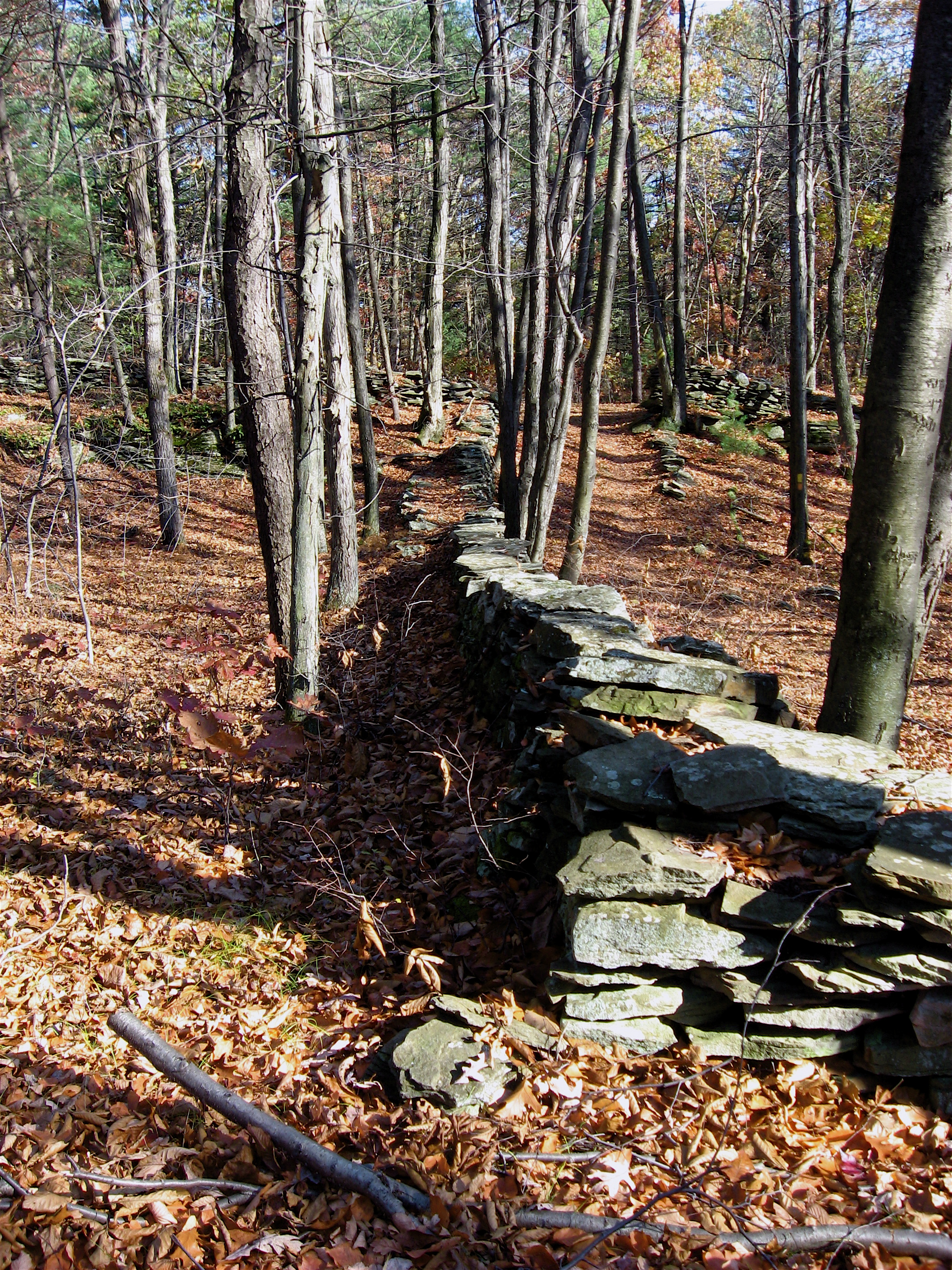 A relict fence row at Frances Slocum State Park